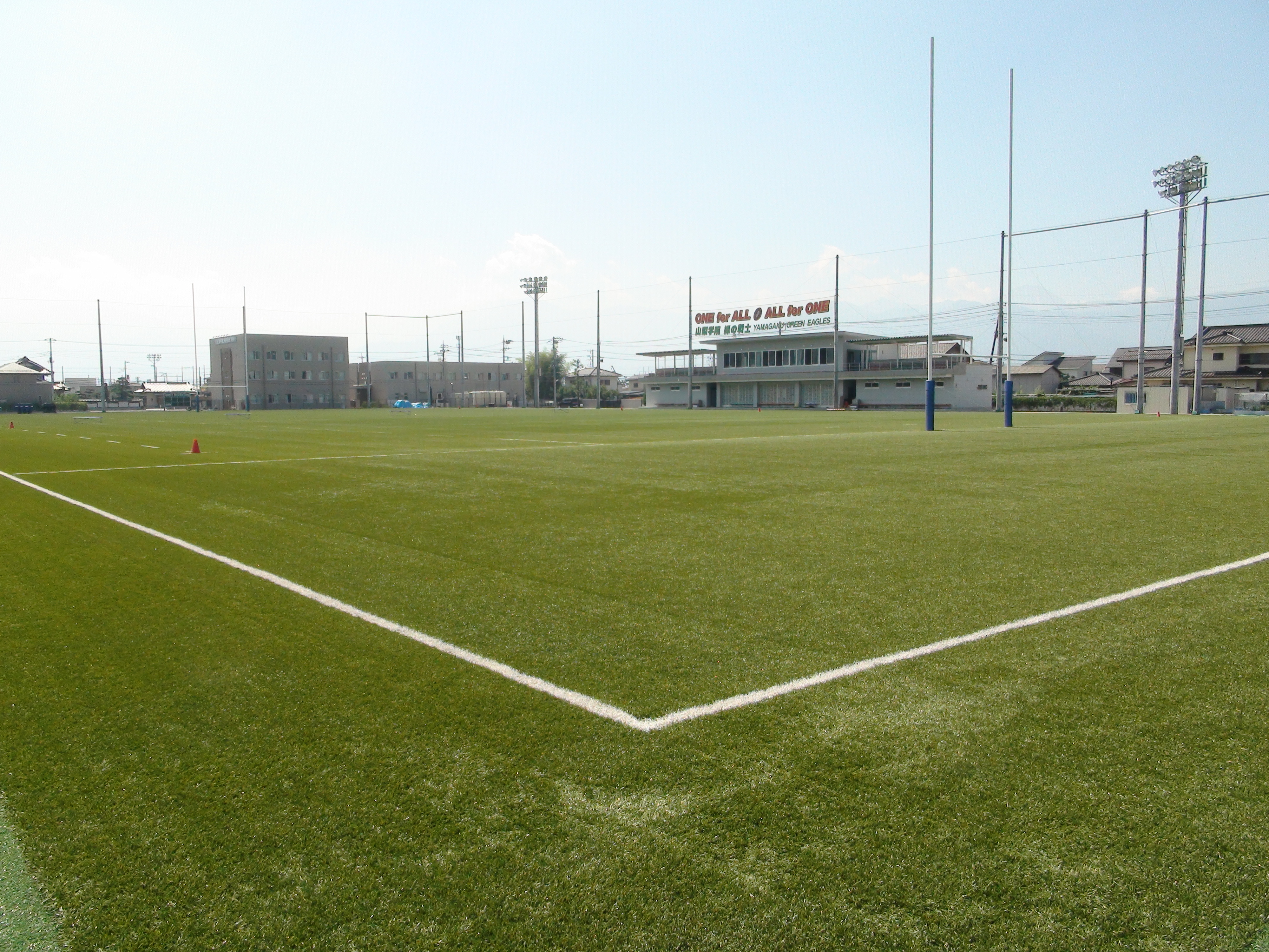 Yamanashi Gakuin University WADO rugby field